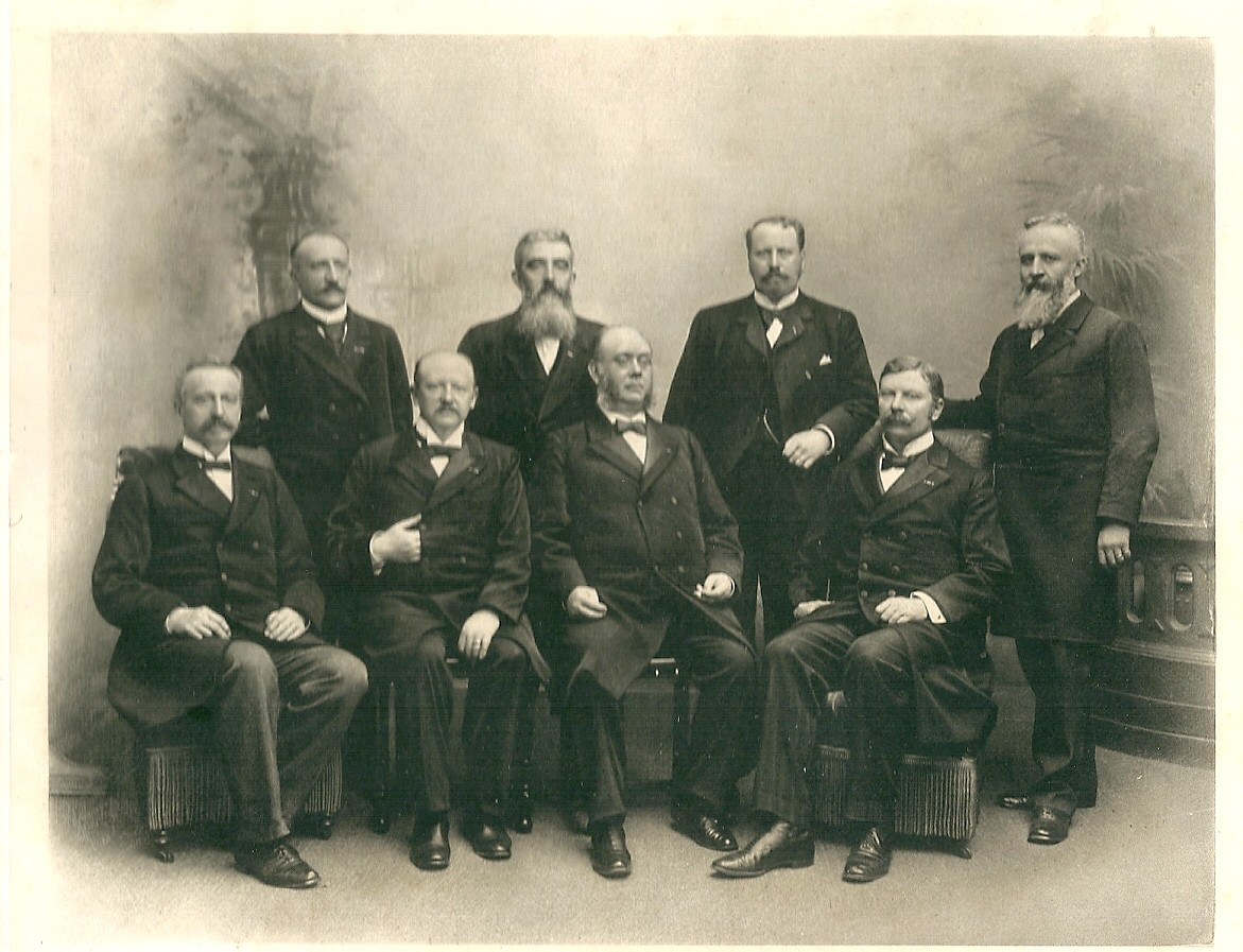 The Pierson cabinet: Back row left to right: Eland, De Beaufort, Lely en Cort van der Linden. Front row left to right: Röell, Goeman Borgesius, Pierson and Cremer.